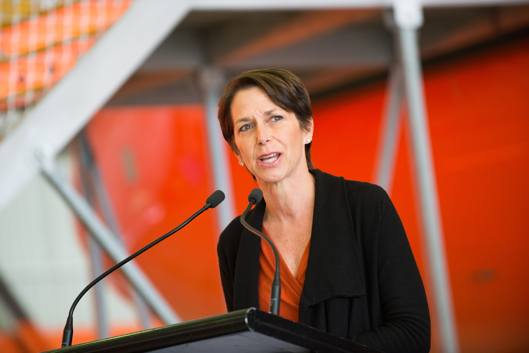 Jayne Hrdlicka (Jetstar Group CEO) at our 10th birthday celebration. On 25 May we celebrated our 10th birthday with a family day at Melbourne Tullamarine Airport.